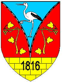 Coat of arms of Artsyz, Odessa Blast, Ukraine